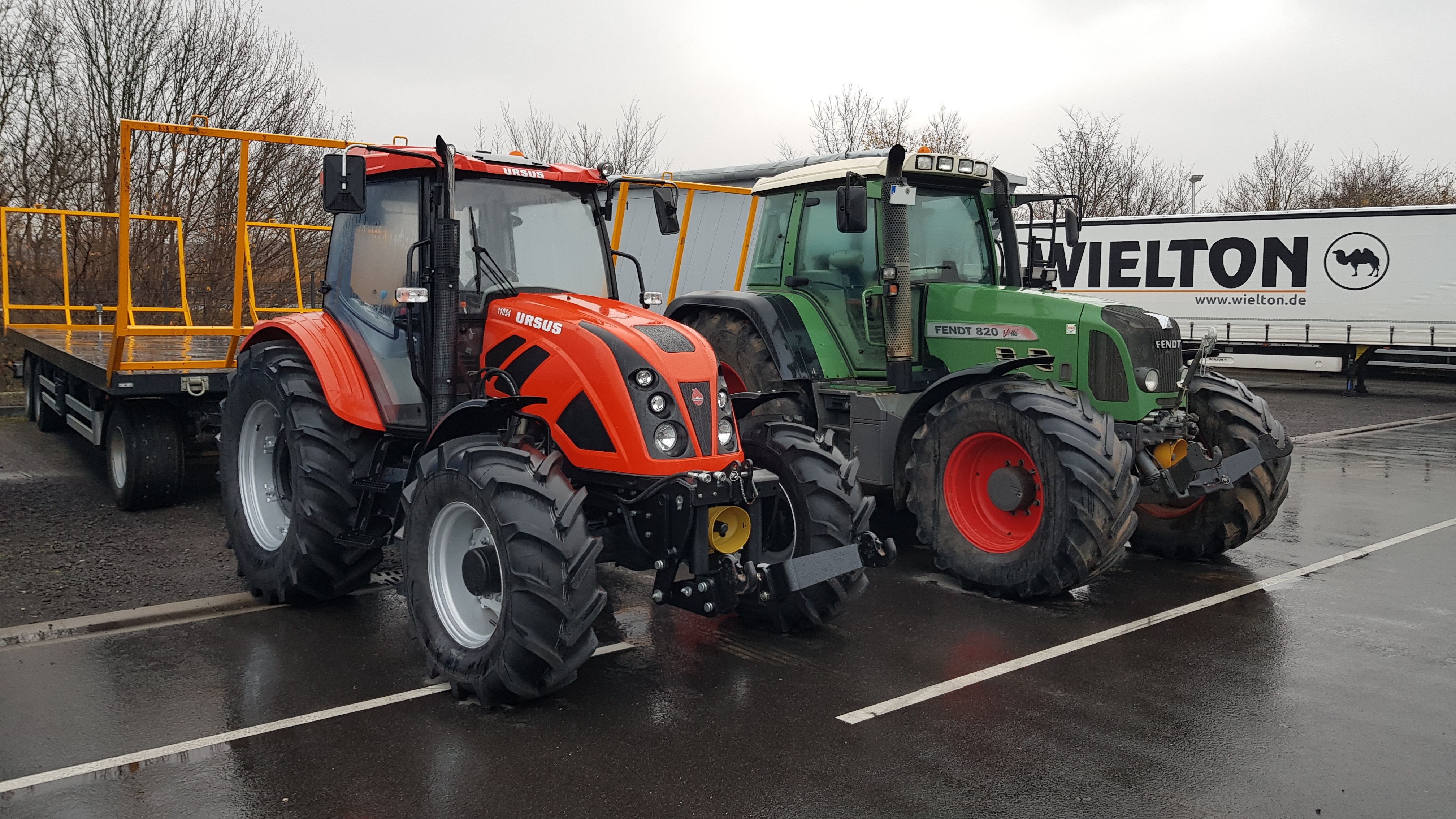 Two modern agriculture tractors of the brands Ursus and Fendt.